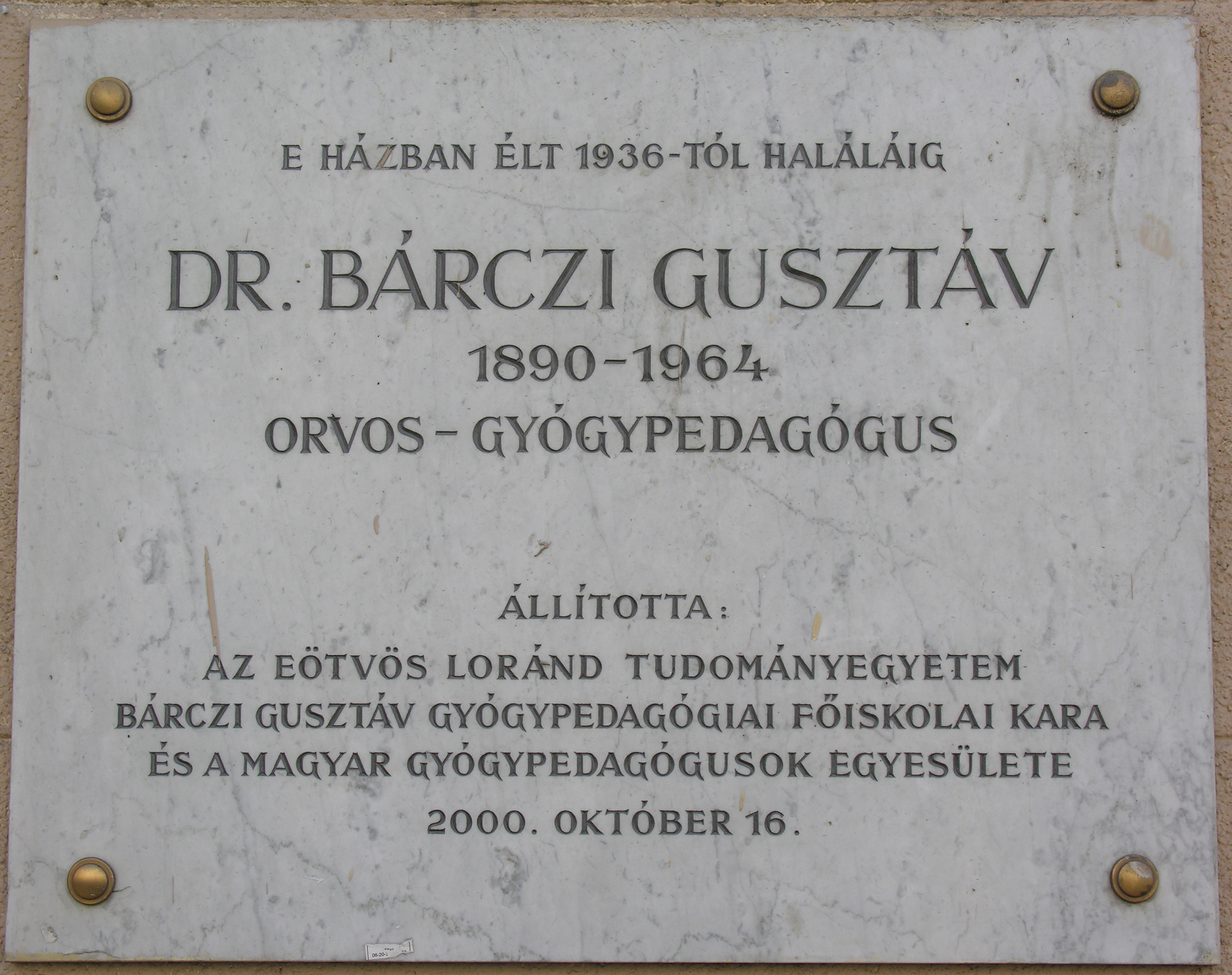 Commemorative plaque of Gusztáv Bárczi in Budapest District XI, Bartók Béla Street No 56